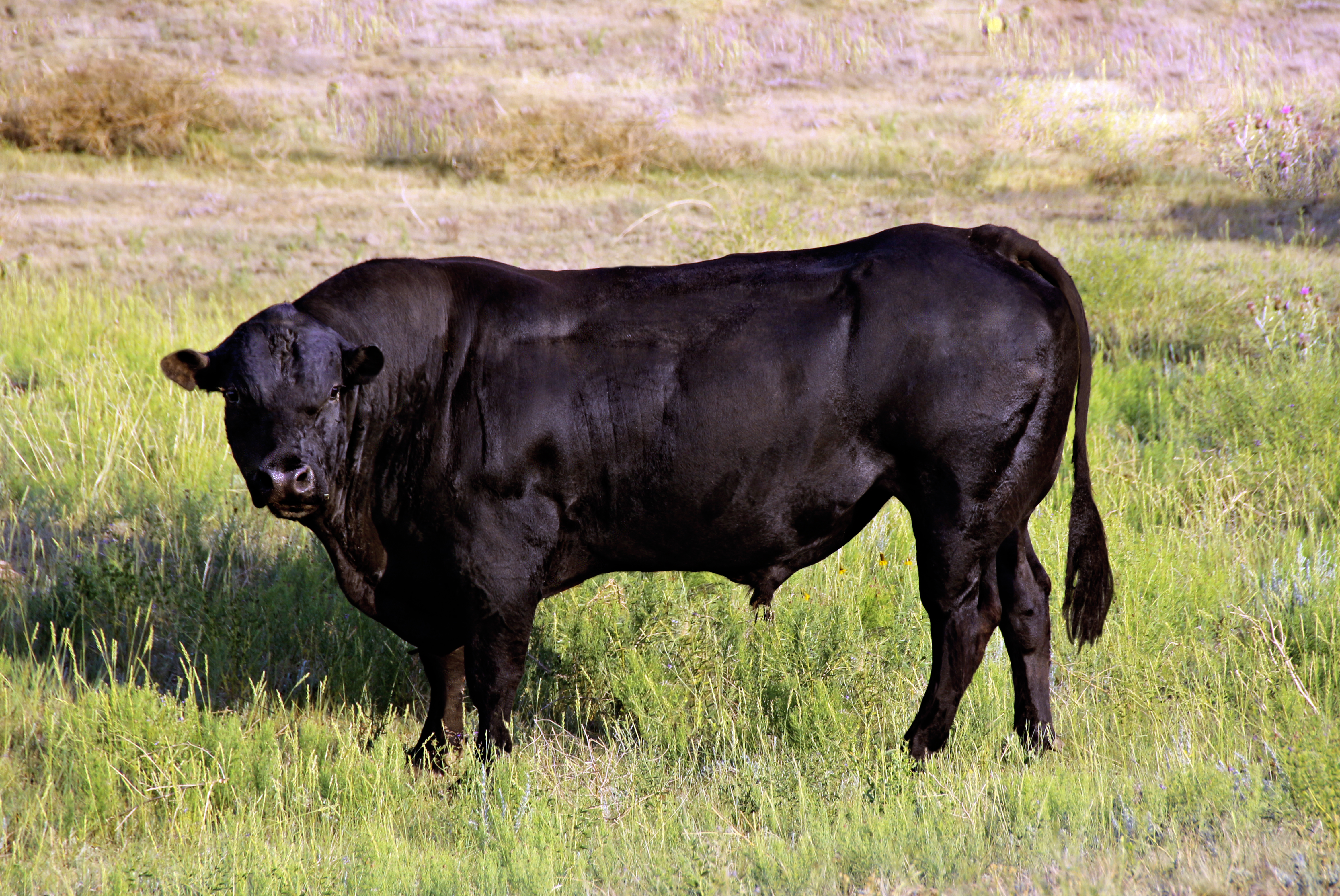 Piedmontese herd sire, Memory Lane Ranch in Ramah, CO - dob March 14, 2009 - National Champion Denver 2010, 2011, and 2012